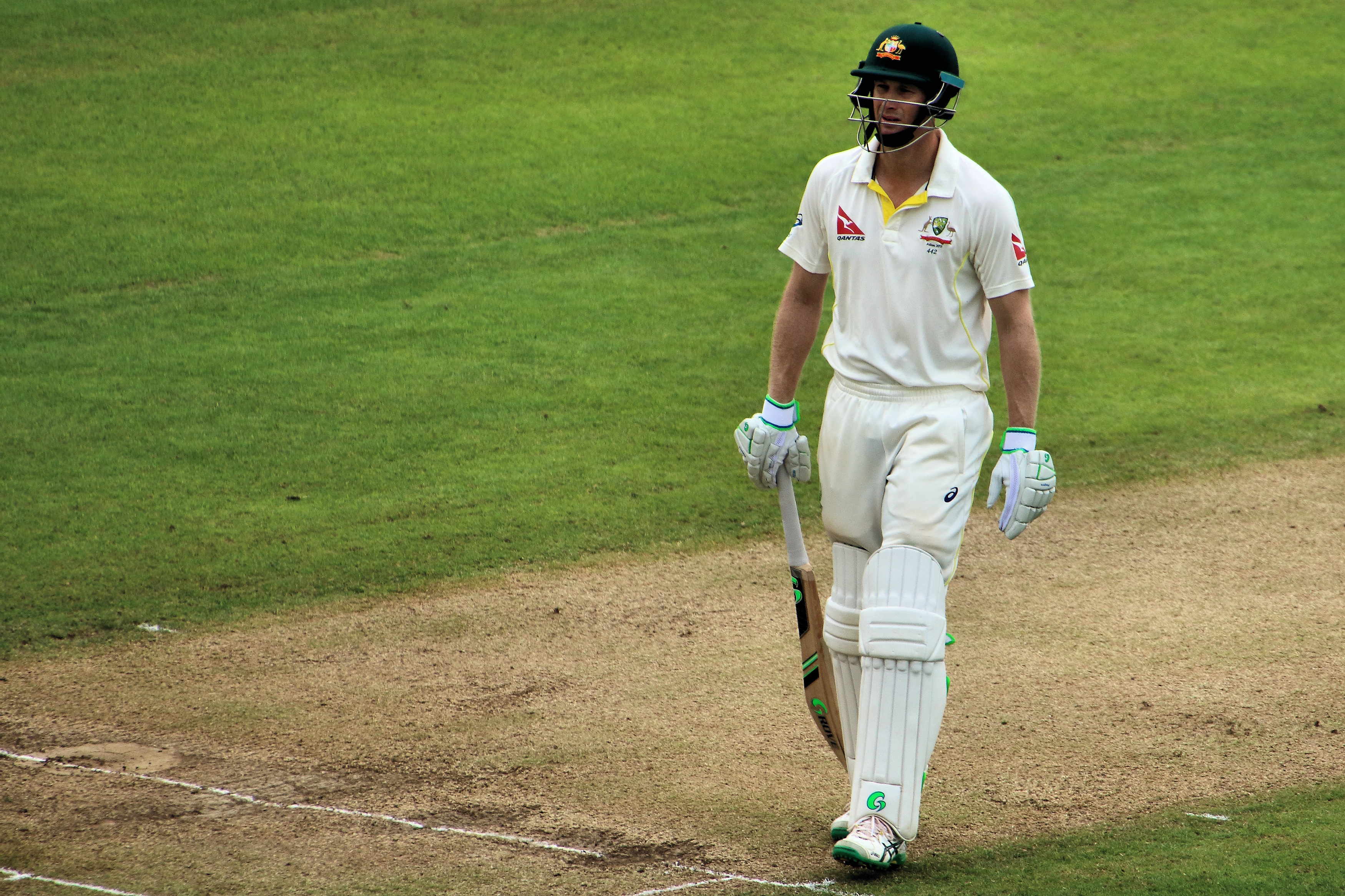 Adam Voges - The Ashes Trent Bridge 2015